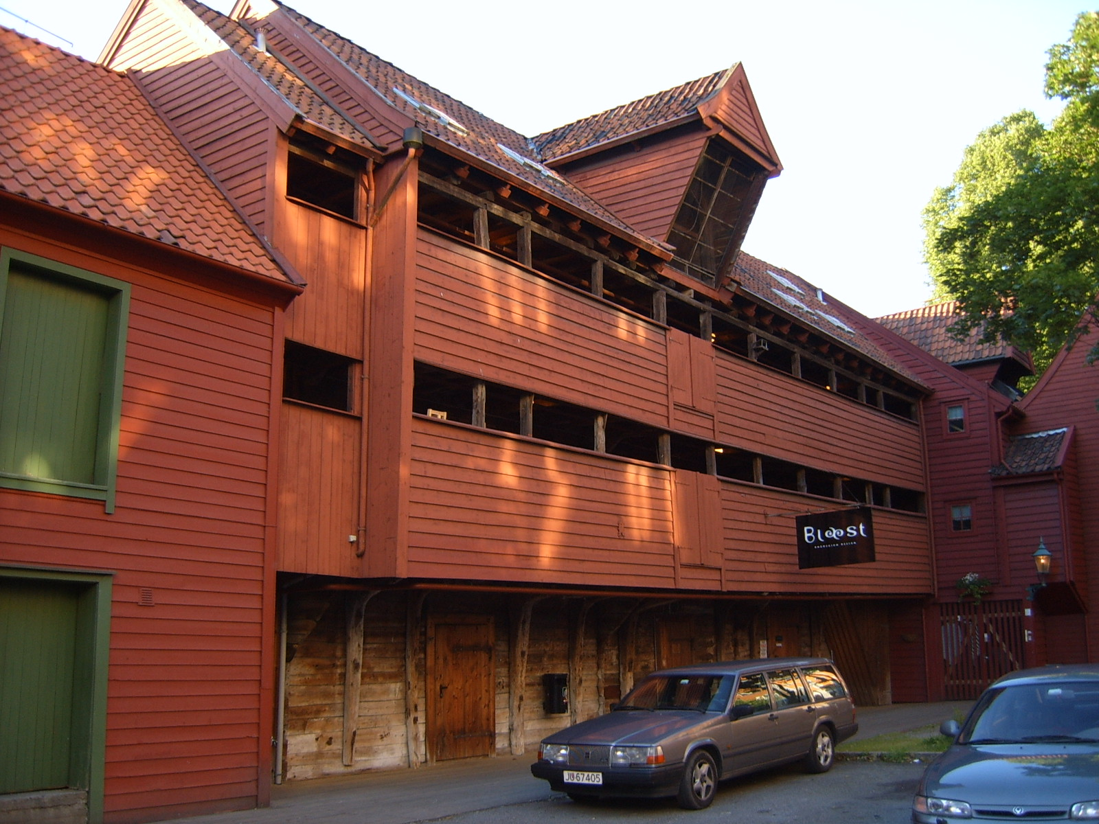 Bryggen, the hanseatic city of Bergen, Norway, july 2005